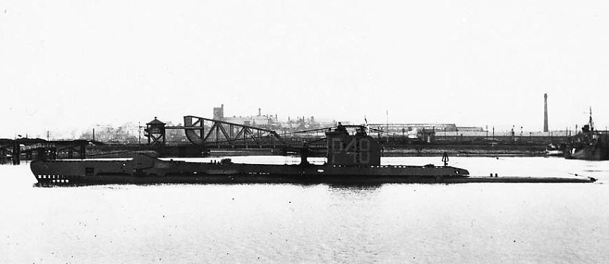 British U class submarine HMS P48 (1942), passing by bridge at Buccleuch Dock, Barrow in Furness